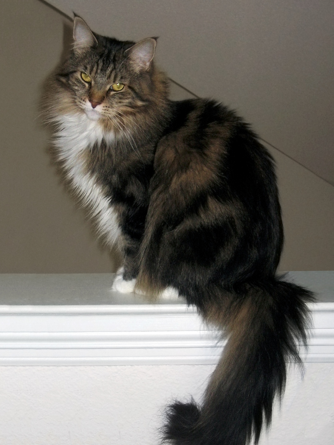 Katze, Maine Coon female, at about 58 months of age